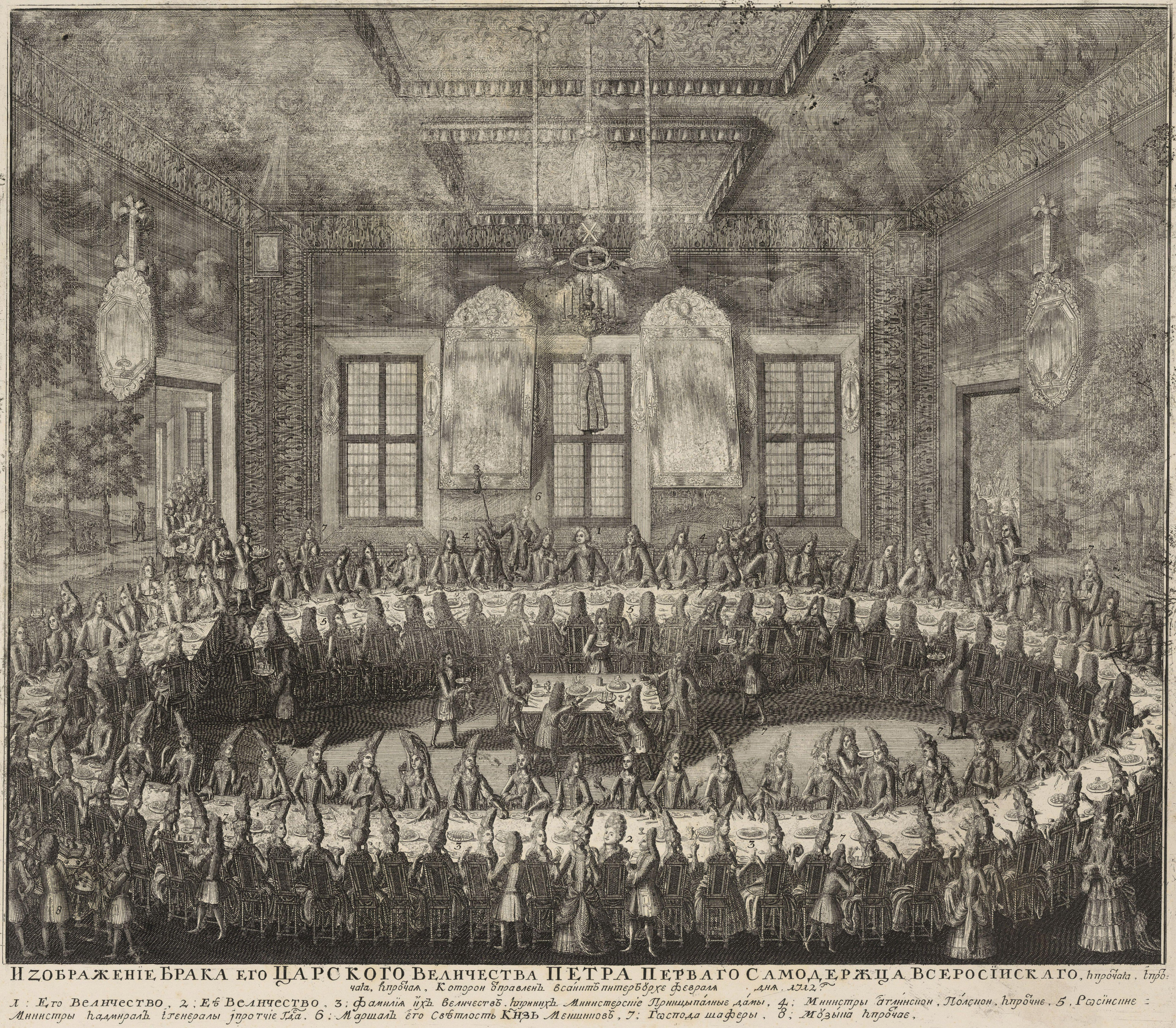 Peter I and Catherine I wedding on 19 February 1712. Engraving 54х62 cm. State Hermitage Museum, St-Petersburg, Russia.